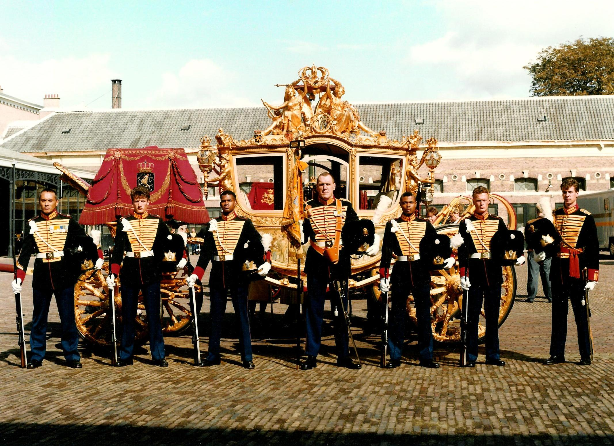 De Vaandelwacht van het Garde Regiment Grenadiers staand voor de Gouden Koets